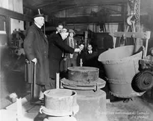 Canadian Prime Minister Mackenzie King throws a commemorative dime into the molten bell metal. Croydon, England.